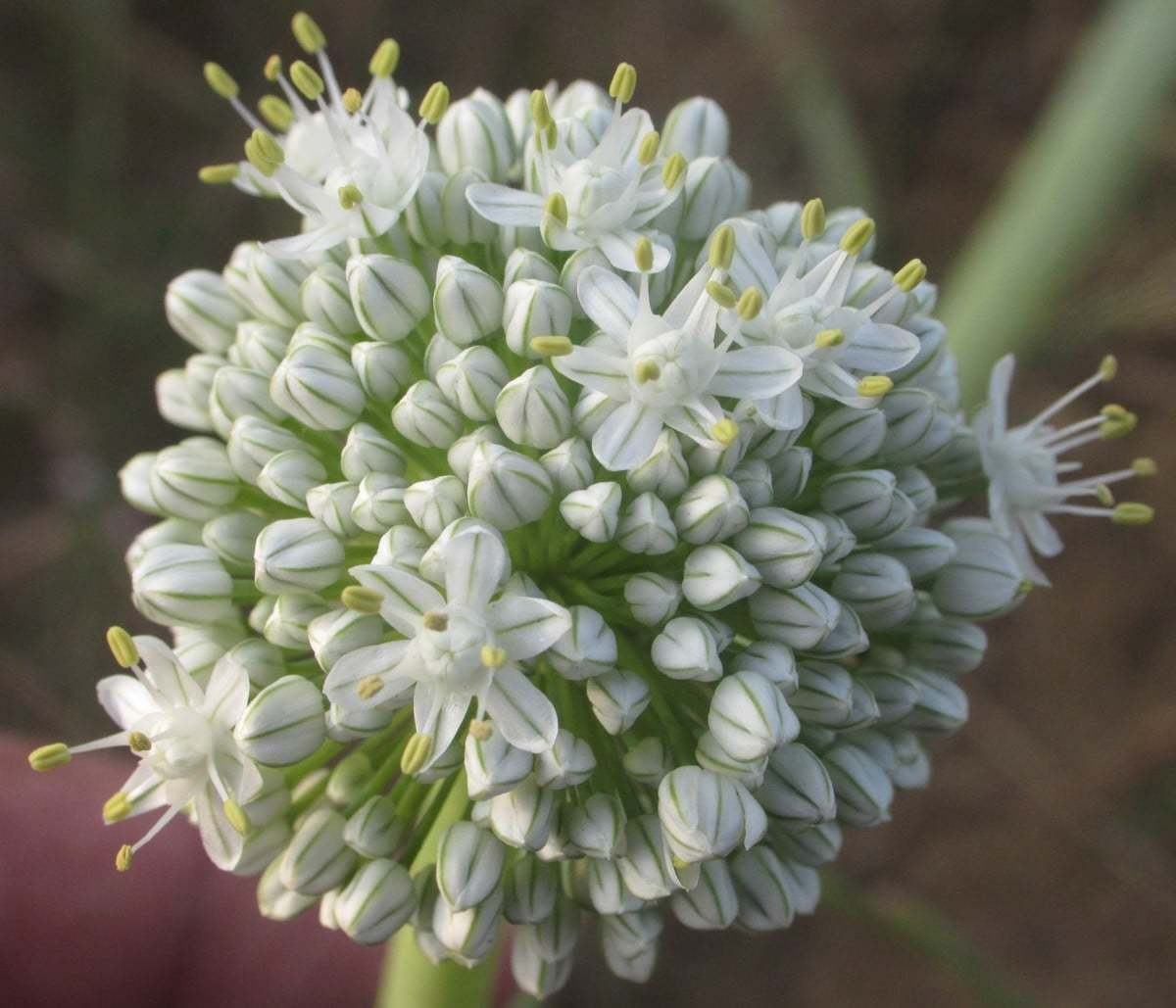 Allium cepa flower